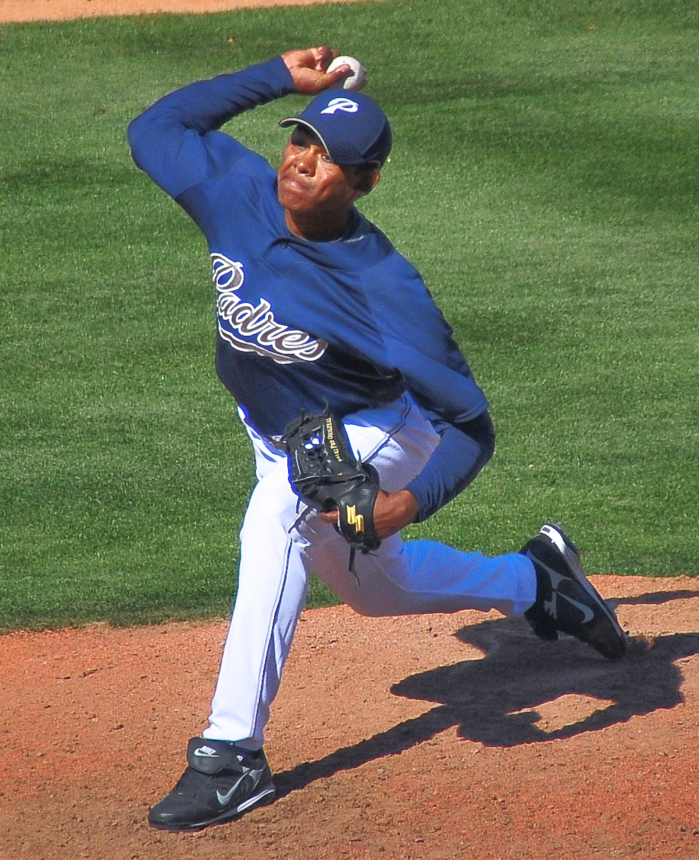 Wilton Lopez pitching for the San Diego Padres in spring training in 2008 in Peoria Arizona